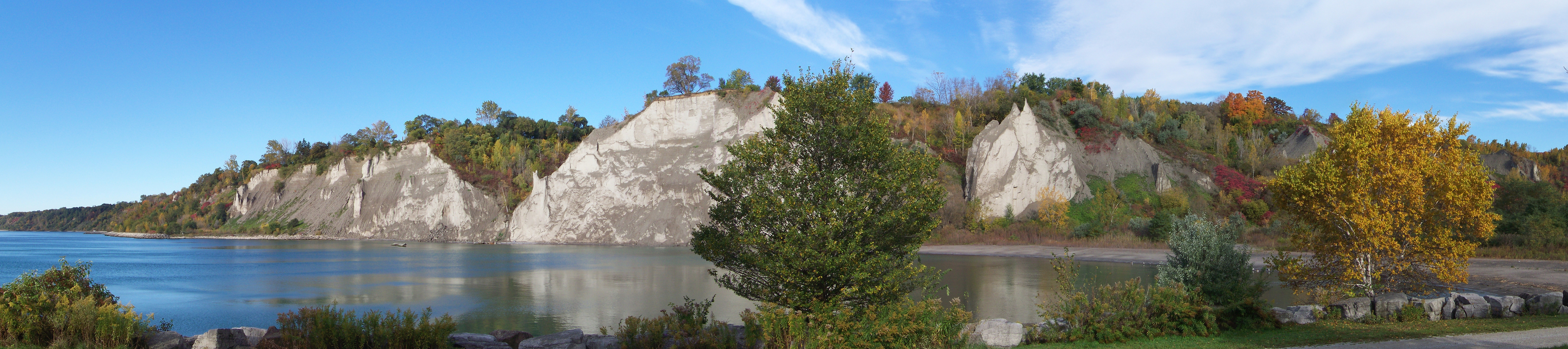 Scarborough Bluffs panorama.